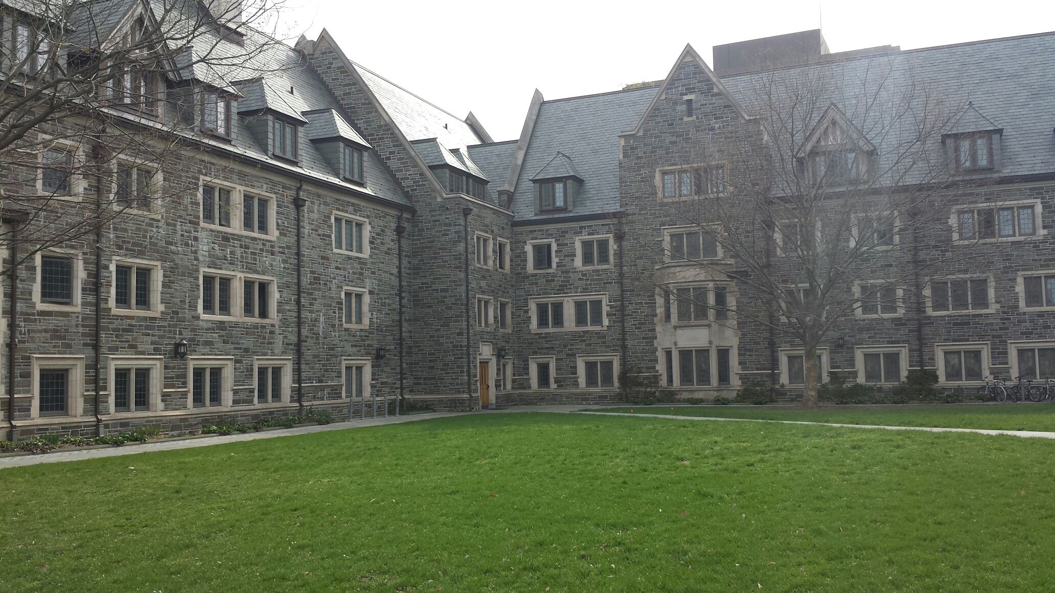 Whitman College Princeton University